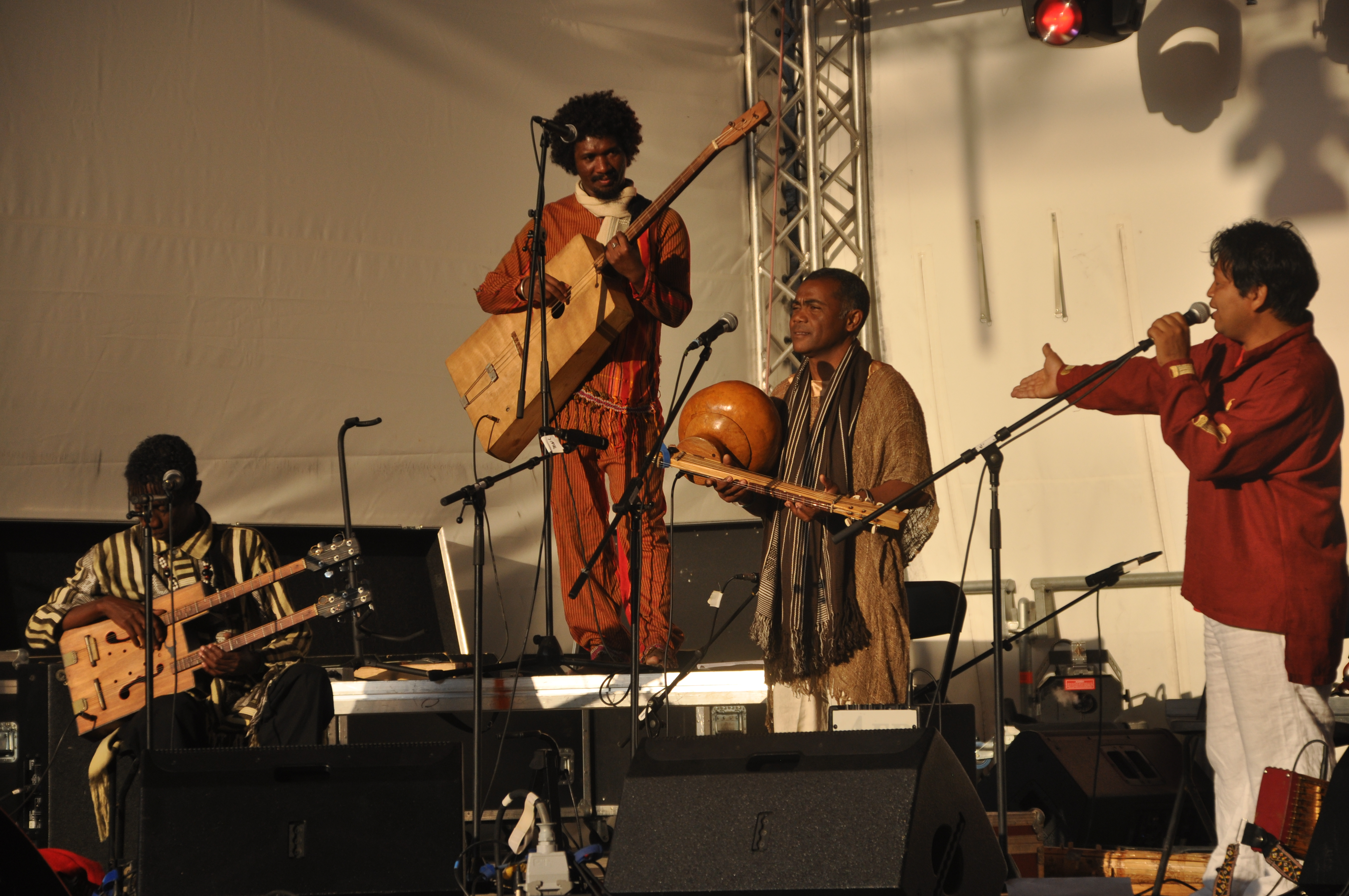 Ny Malagasy Orkestra (Madagascar), appearence at the 11th world music festival "Horizonte" 2013 at the fortress Ehrenbreitstein, Koblenz, Germany